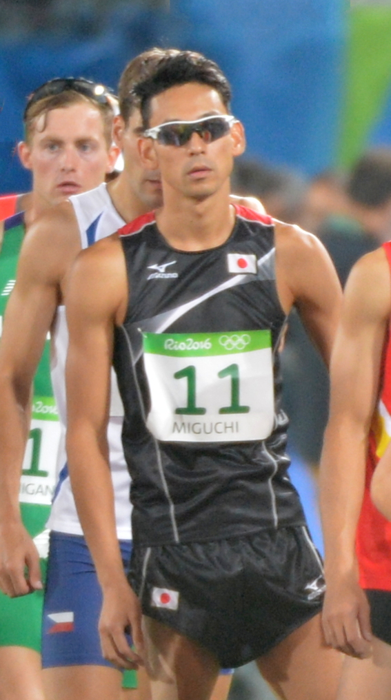 Men's Modern Pentathlon event Aug. 20 at the Rio Olympic Games in Rio de Janeiro. U.S. Army photo by Tim Hipps, IMCOM Public Affairs #SoldierOlympians #ArmyOlympians #ArmyTeam #TeamUSA #RoadToRio #ArmyStrong #GoArmy #WCAP #ArmyWCAP